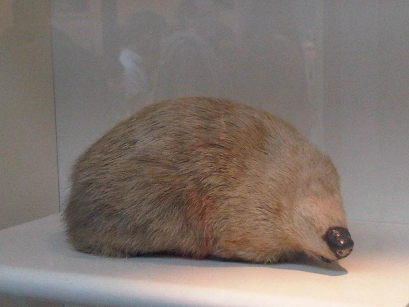 Taxidermied Giant Golden Mole (Chrysospalax trevelyani) at the Natural History Museum in London, England.